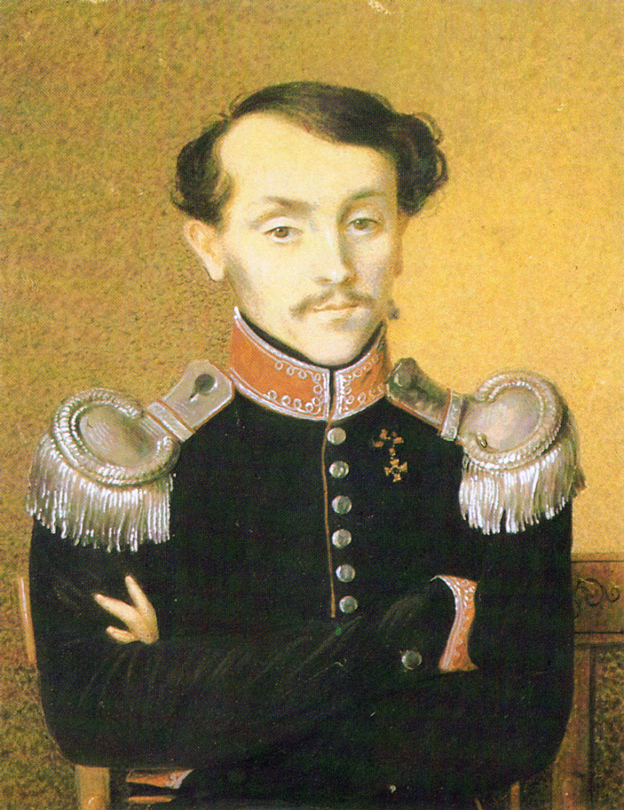 Nicolay Ilyich Tolstoy (1794—1837)